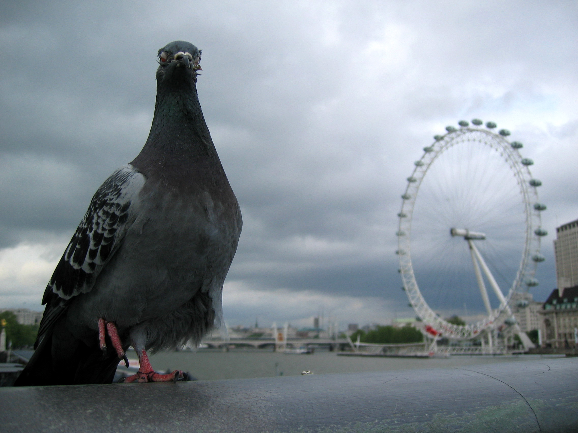 A Rock Pigeon in London, with the Thames and the Millennium Wheel in the background